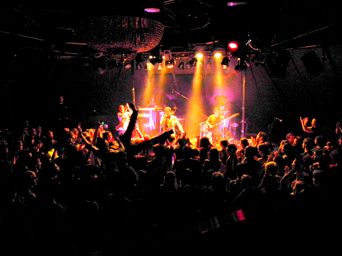 Äl Jawala live at Kuppel Basel, 2012